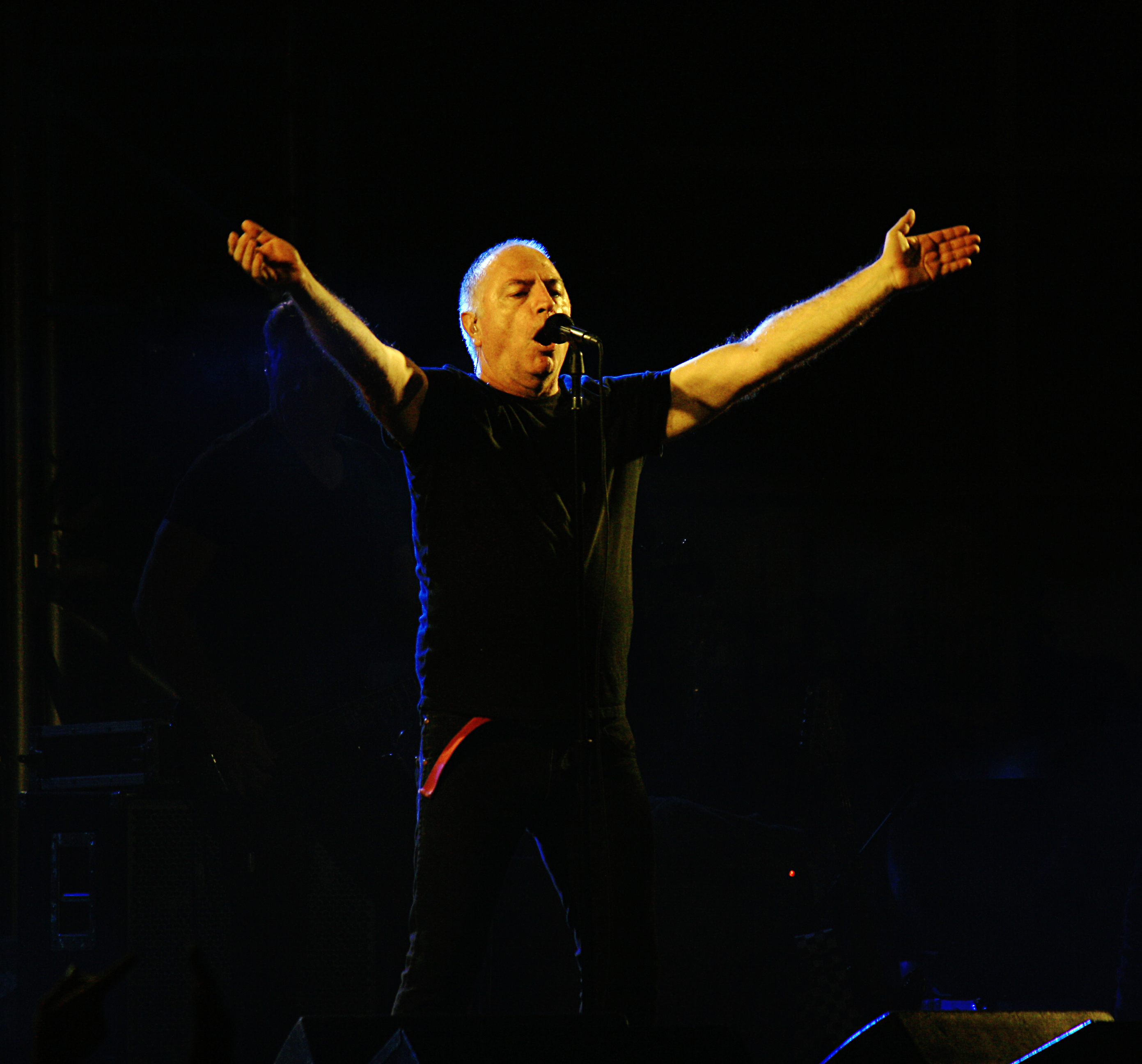 Tislam member, Danni Bassan.